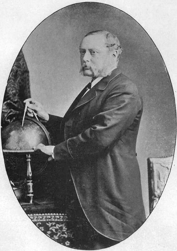 From here